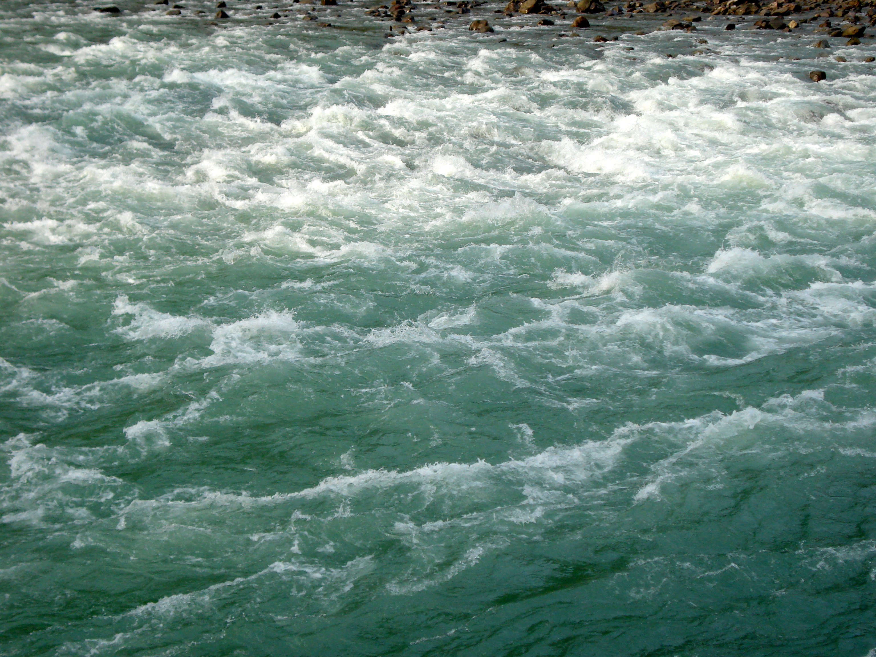 Rapids in Ganga at Kodiyala